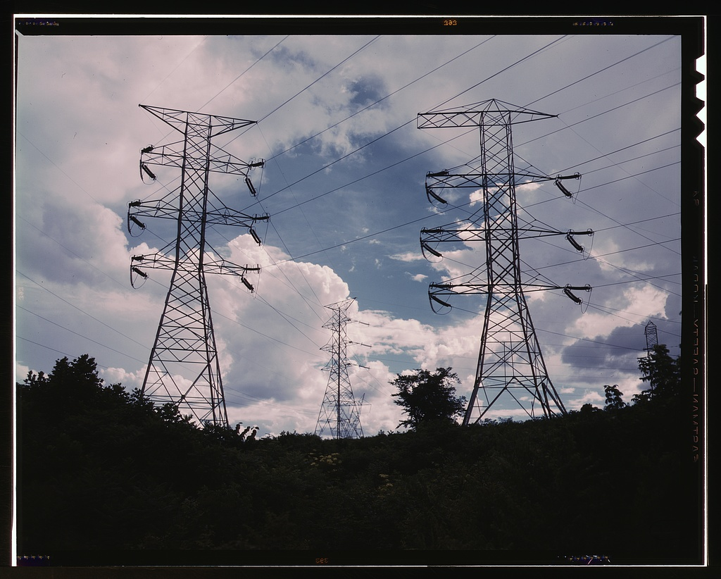 Title: Transmission line towers and high tension lines that carry current generated at TVA's Wilson Dam hydroelectric plant, near Sheffield, Ala.